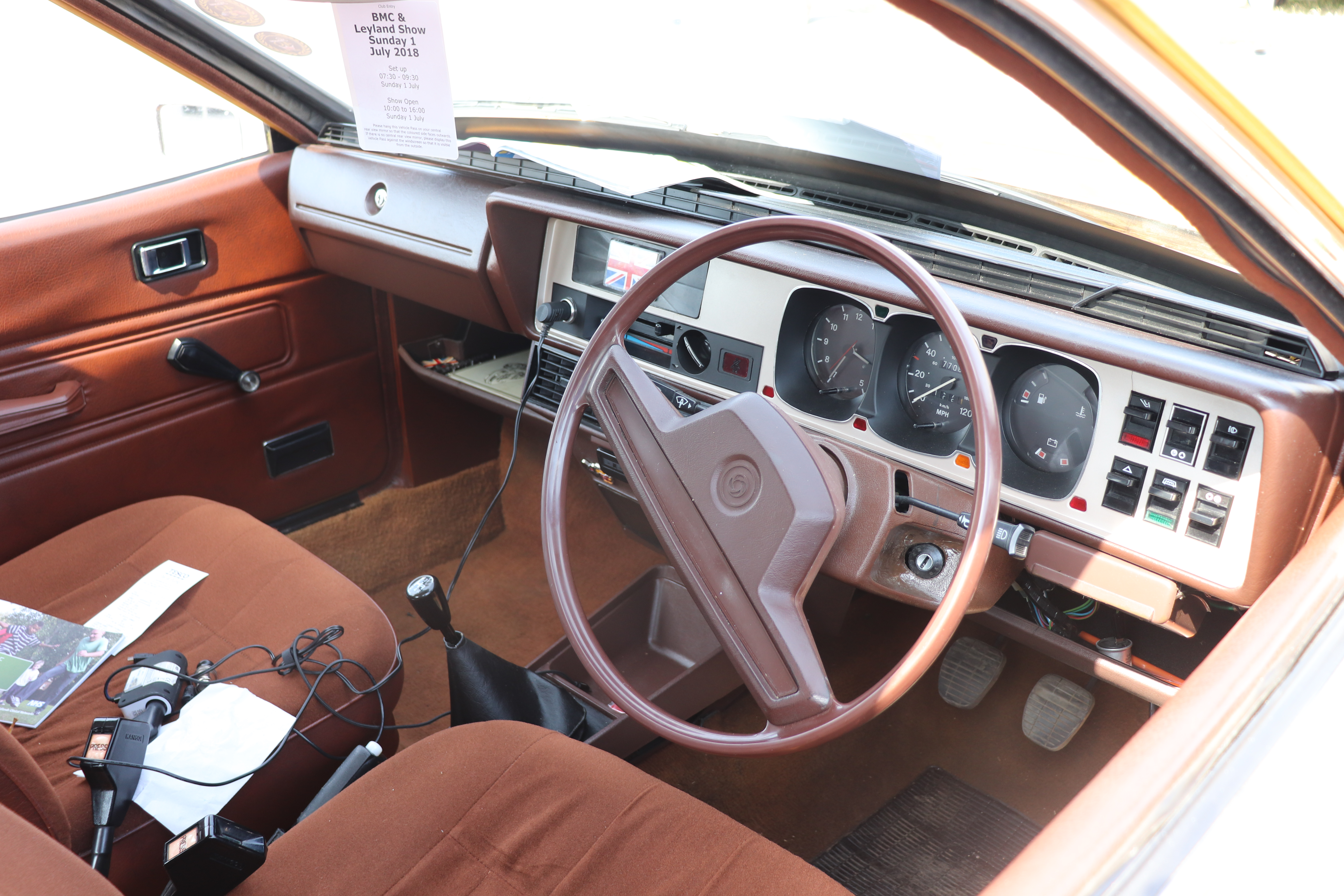 1977 Princess 2200 HL Interior Taken at the British Motor Museum BMC & Leyland Show 2018, Gaydon